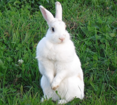 Domestic white rabbit in a sitting pose with grass in the background